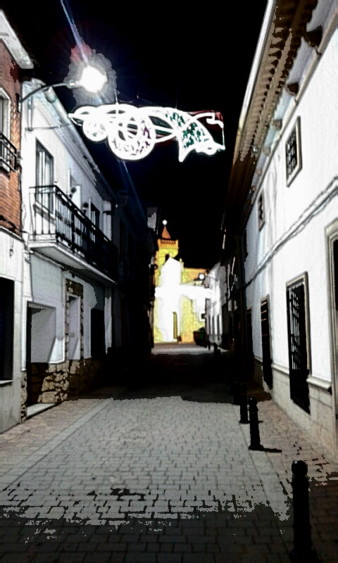 Casco Antiguo